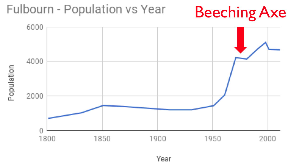 The Beeching Axe and the 1970s economic downturn halted population and housing growth in Cambridgeshire populous village of Fulbourn, which had boomed for the first time between censuses of 1951-1971, having seen a small decline, 1851 to 1931 and being net static, approximately, 1851 to 1941